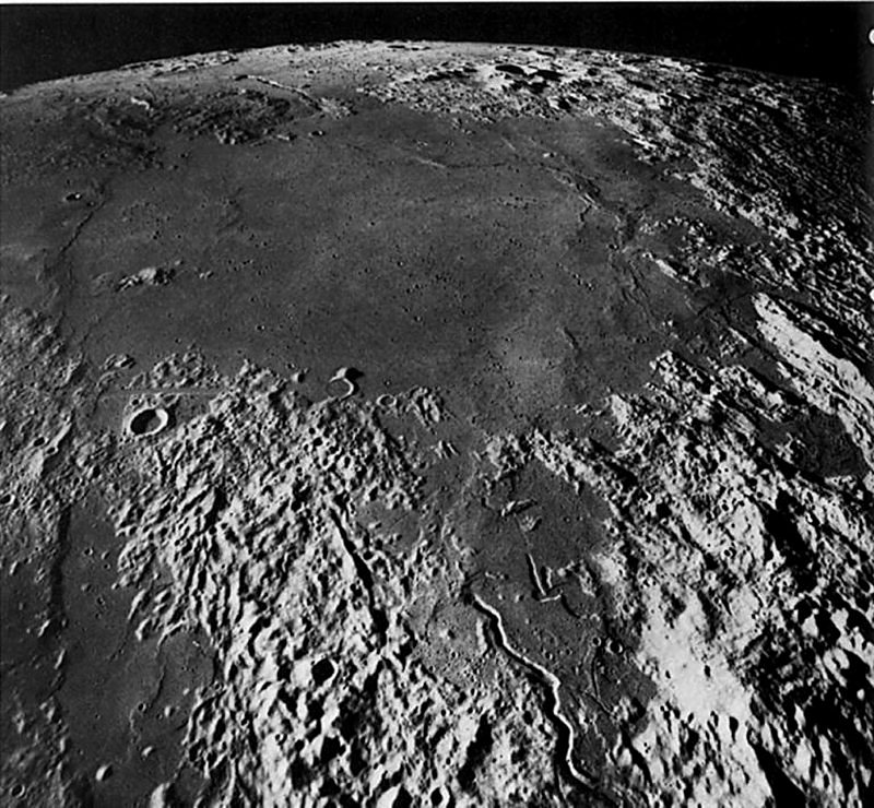 Apollo, AS17-1674 (M) (Altitude: 104km): It is common for the circular form of a very old basin to survive even after all basin materials are obliterated. Mare Vaporum, as shown in this south looking oblique photograph, provides a good example. Its average width is about 200 km. Its circular form marks the outer edge of the ancient, deeply buried Vaporum basin. All the terrae surrounding Mare Vaporum are blanketed by massive ejecta of the Imbrium basin, the center of which lies to the north, behind and to the right of the camera. The ejecta disappears beneath Mare Vaporum. The circularity is enhanced at the left (east) of the picture by a system of mare ridges and scarps that was localized over an old Vaporum basin ring. The cratered, linear Hyginus Rille is near the southern horizon, and the sinuous Conon Rille, to be described later in this book, is in the foreground. (Figure 35 in: H. Masursky, G.W. Colton, and F. El-Baz (eds.) (1978). Apollo over the moon: A view from orbit. NASA, Washington DC)